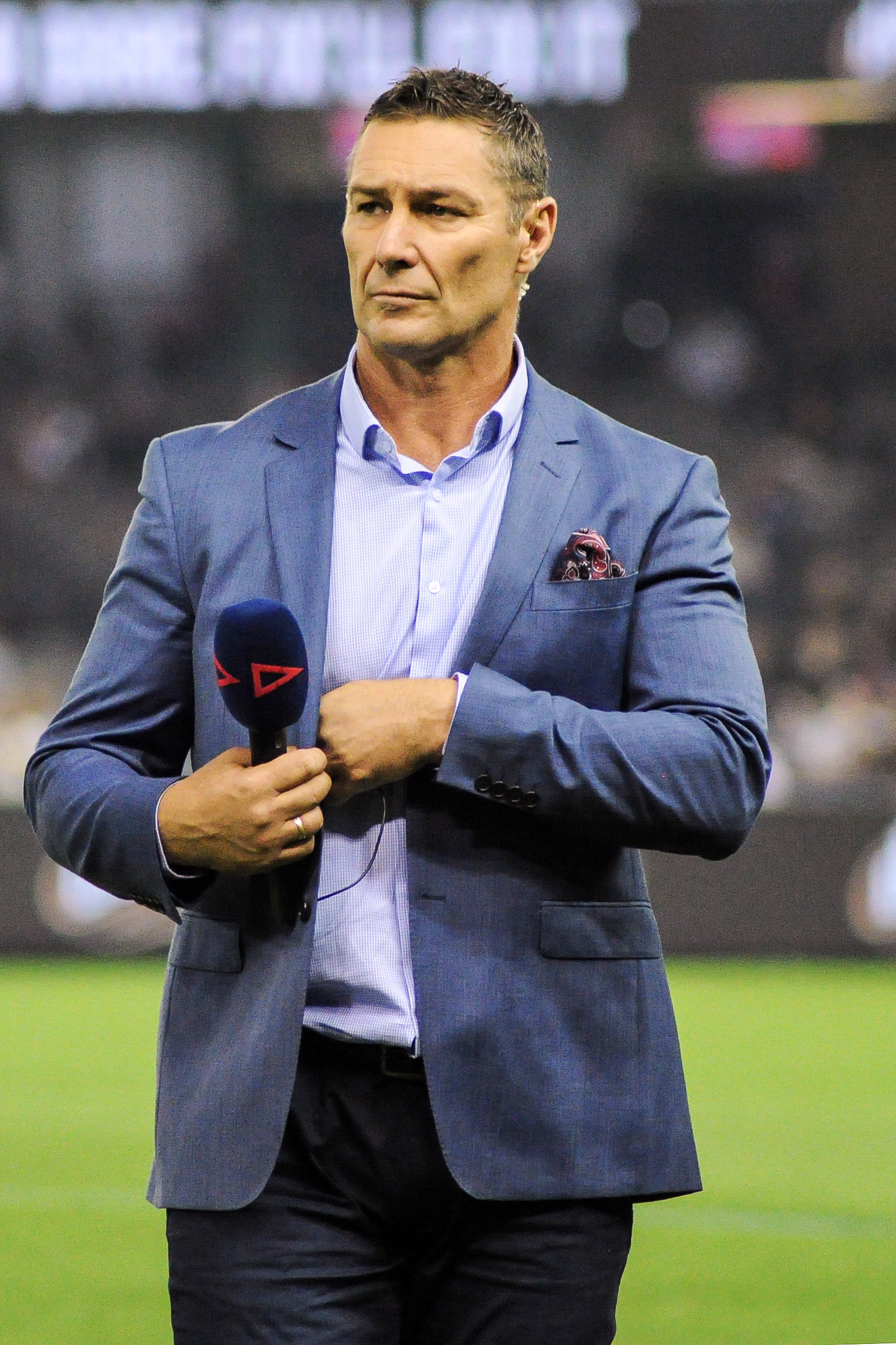 Alastair Lynch during the AFL round five match between St Kilda and Greater Western Sydney on 21 April 2018 at Etihad Stadium in Melbourne, Victoria.